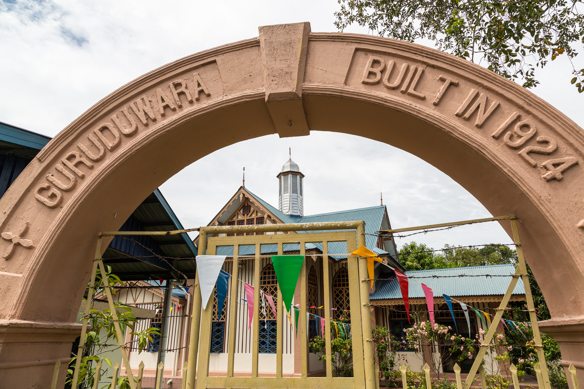 Kota Kinabalu (Sabah): Gurudwara Sahib (Sikh Temple), built in 1924